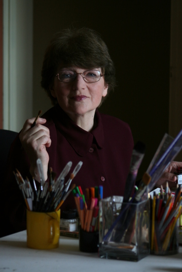 Małgorzata Musierowicz, Polish writer